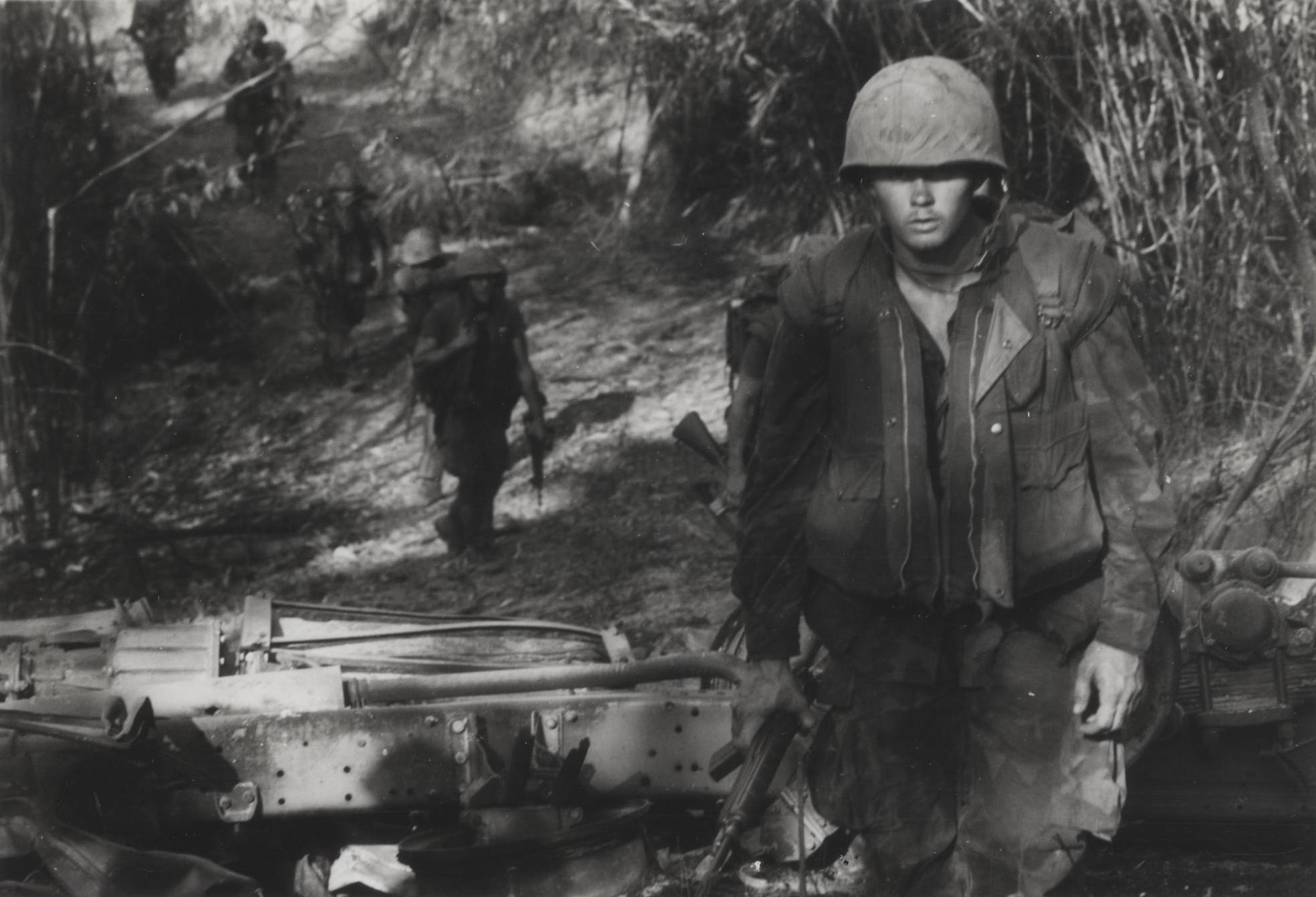 2/3 Marines pass a destroyed North Vietnamese truck south of Khe Sanh during Operation Maine Crag